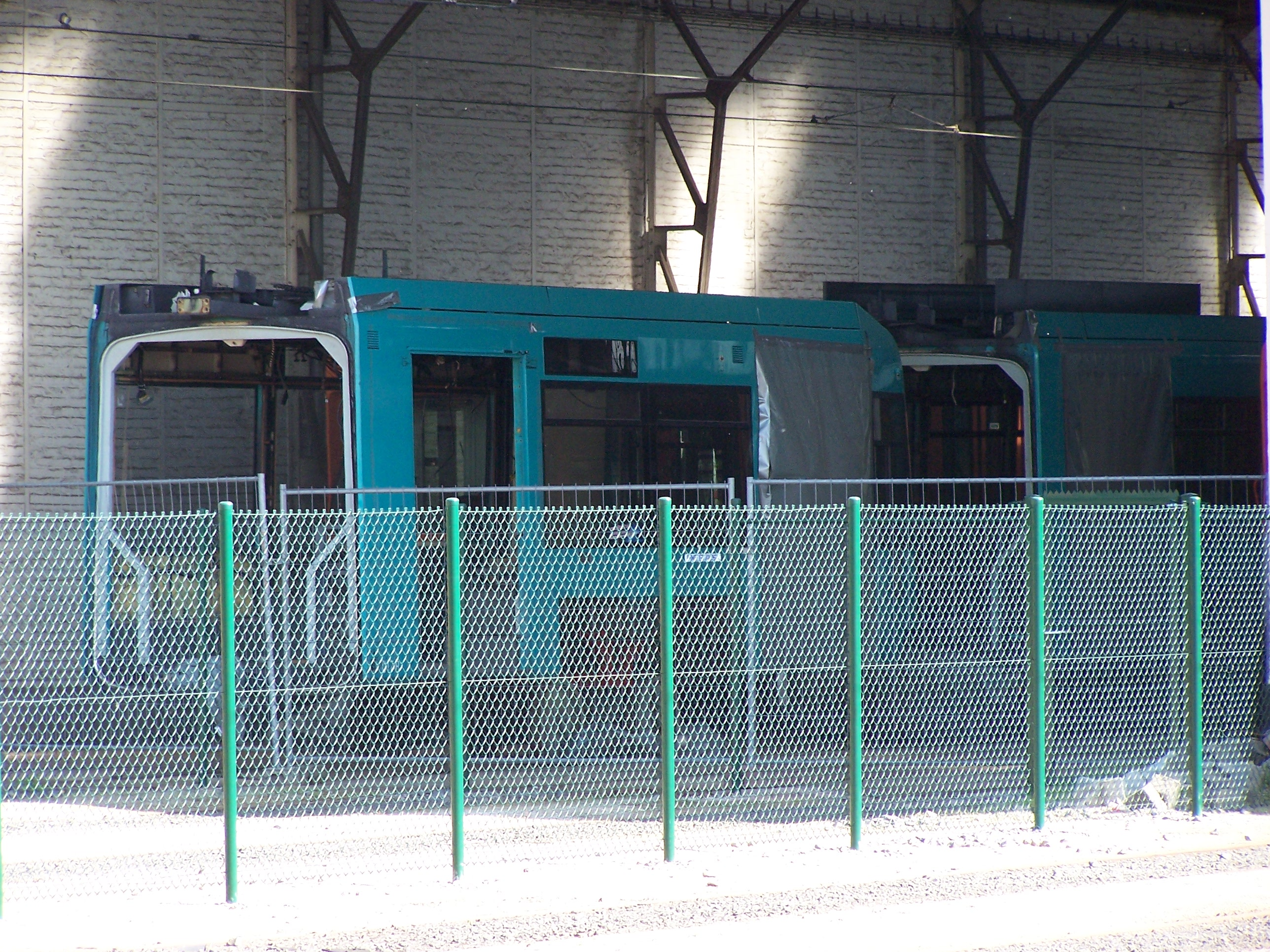 tram depot in Frankfurt-Eckenheim with parts of crashed VGF railcar type R No. 017 which crashed on a buffer stop at the border to Offenbach at July 10th 2005 caused by an operating error, April 2007